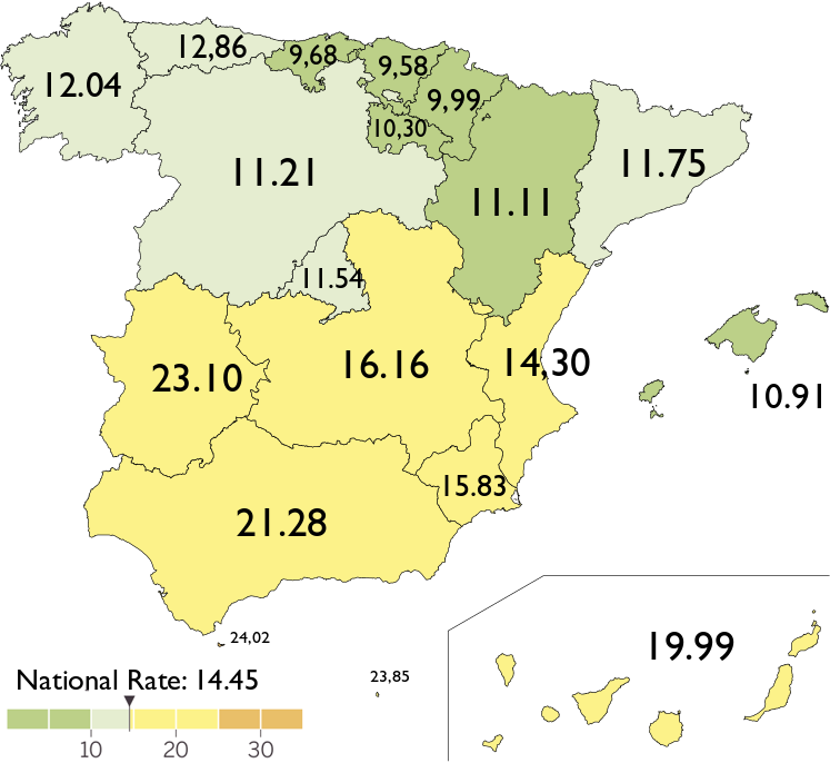 Map with the unemployment rate in Spain by regions updated to January 2019 data.